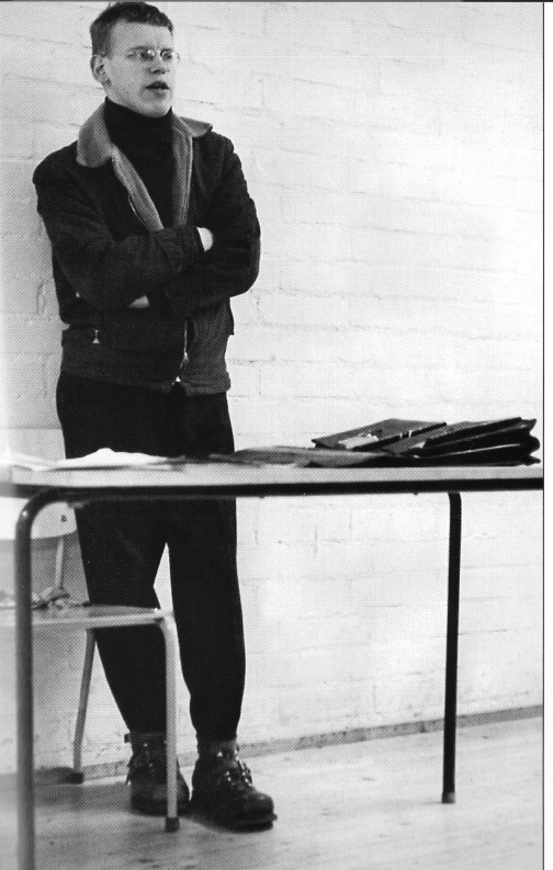 Photograph of the Finnish music journalist Erkki Pälli (1935–2018).